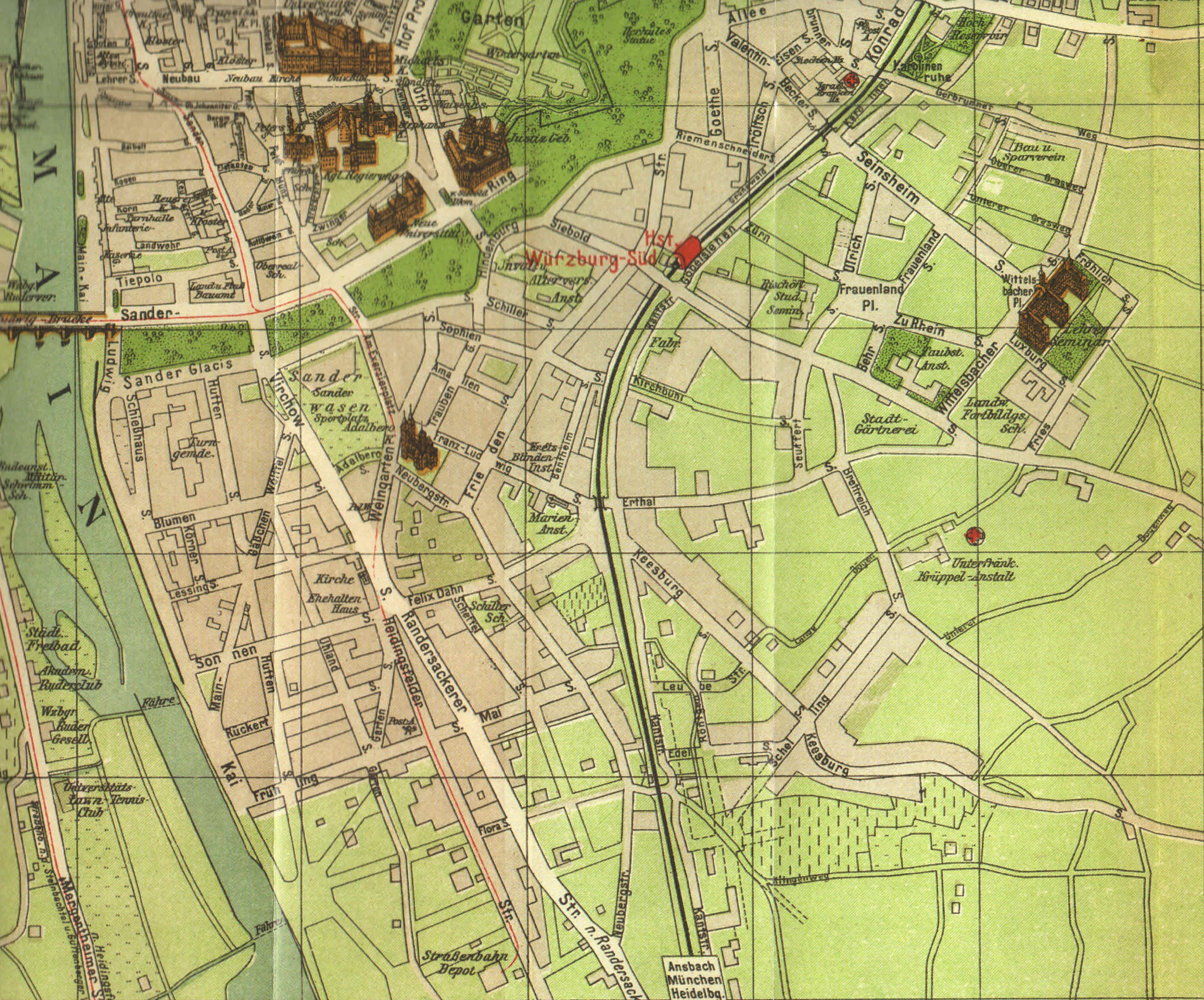 Map of Würzburg-Sanderau from the year 1921.